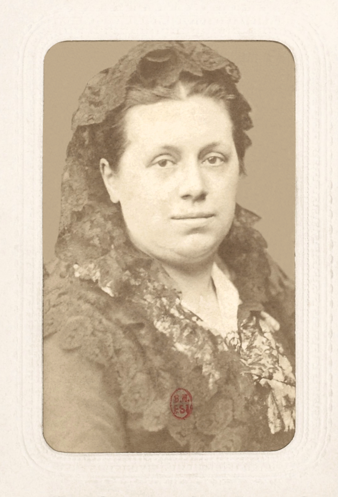 Henry Gréville (Alice Fleury-Durand) (1842-1902), french writer, journalist, novelist and poet.